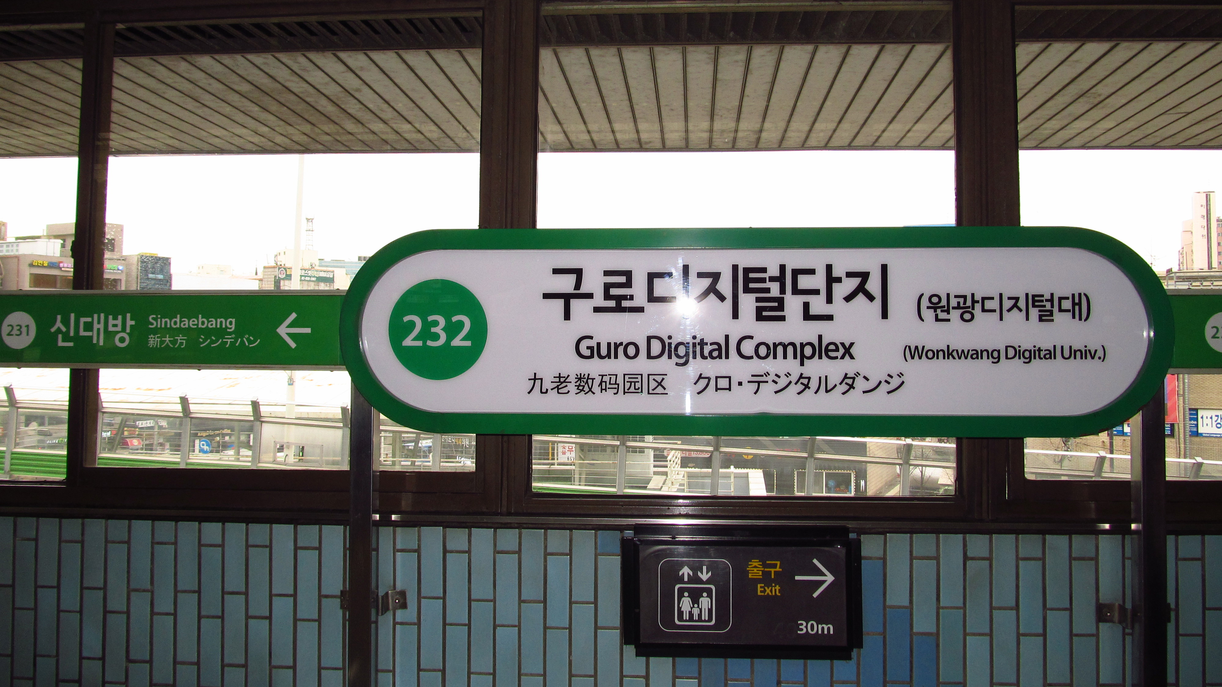 A sign of Guro Digital Complex Station on Seoul Subway Line 2